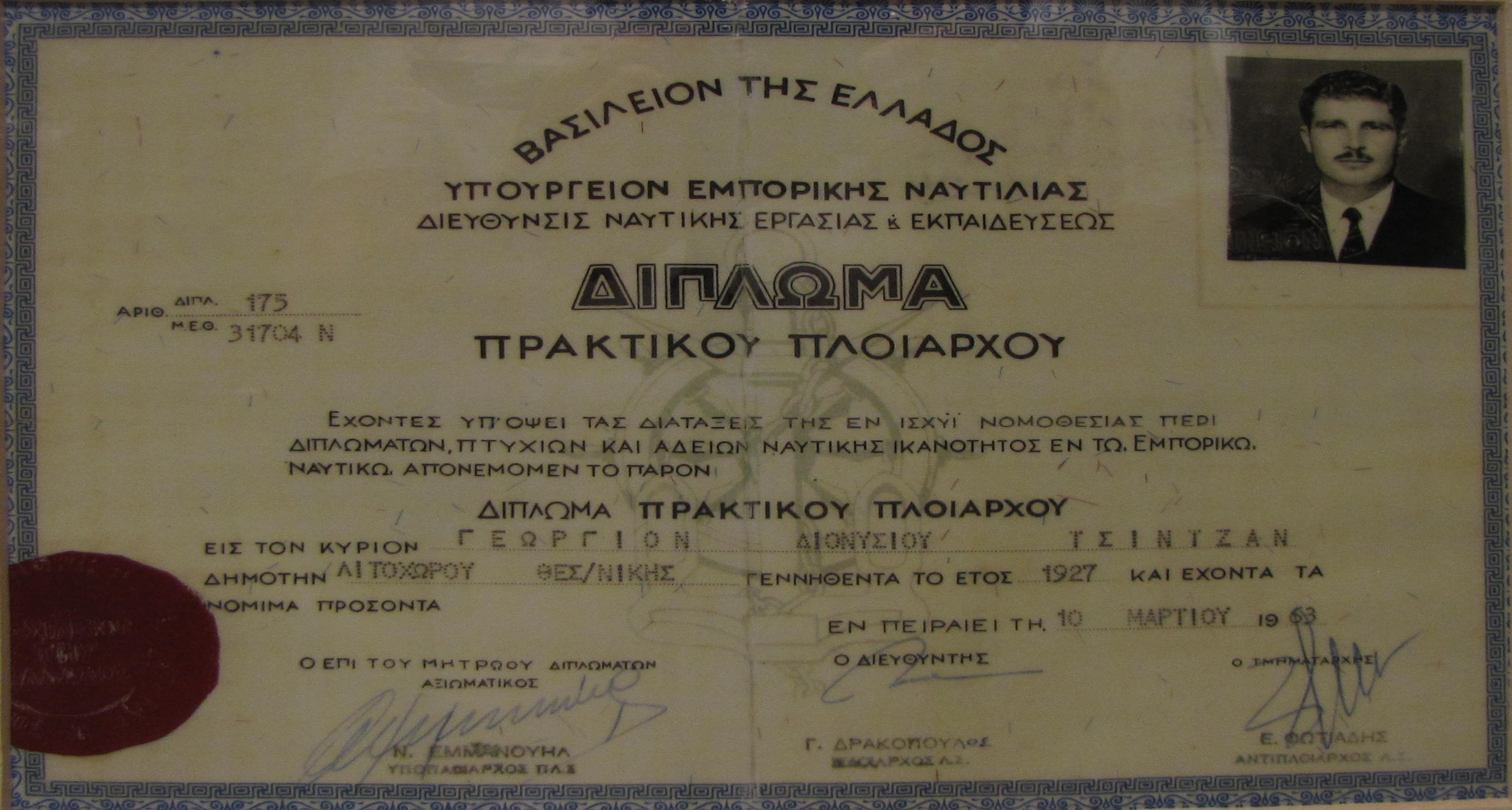 Nautical diploma